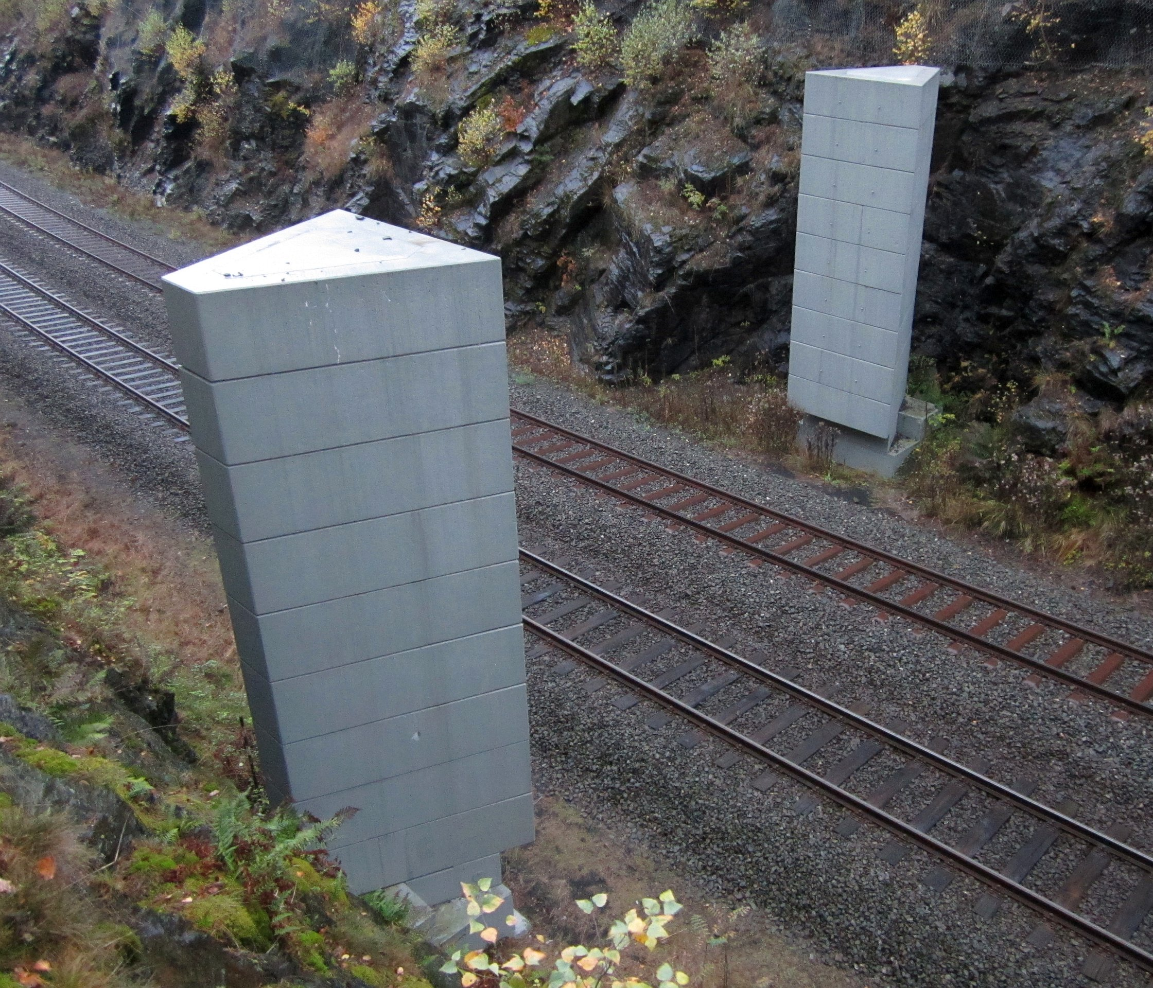 Rail obstacle to troop movement at Schiefe Ebene, northern Bavaria